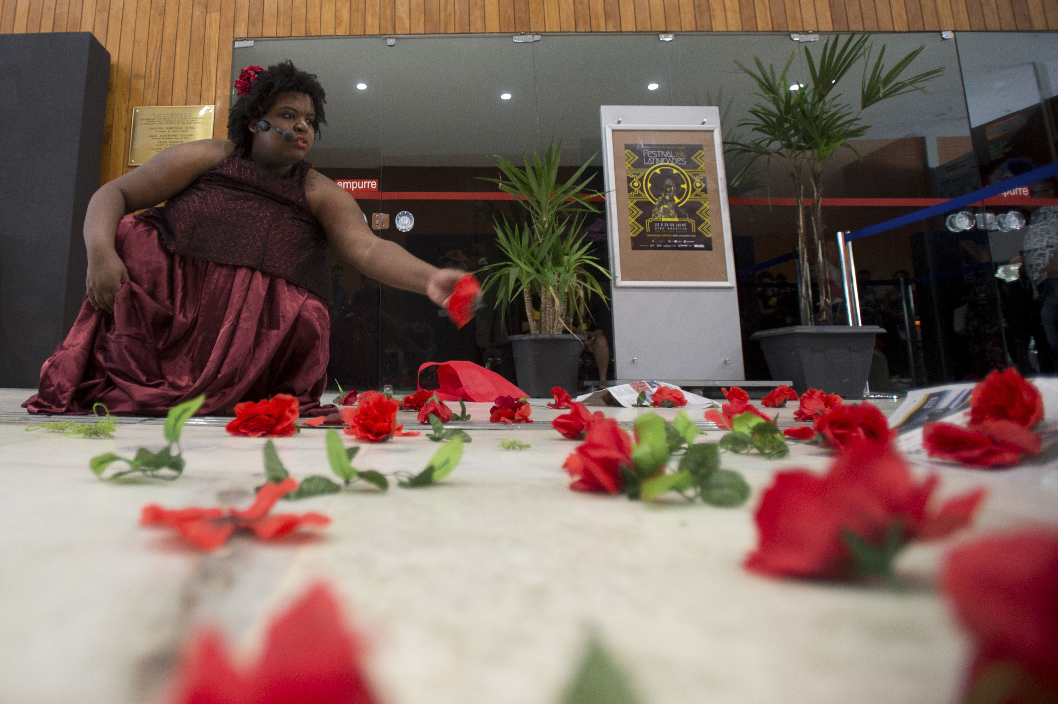 Photo by Marcelo Camargo/Agência Brasil CCBY3.0